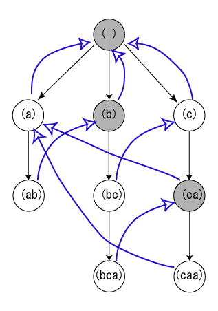 Example of graph used in Aho-Corasick